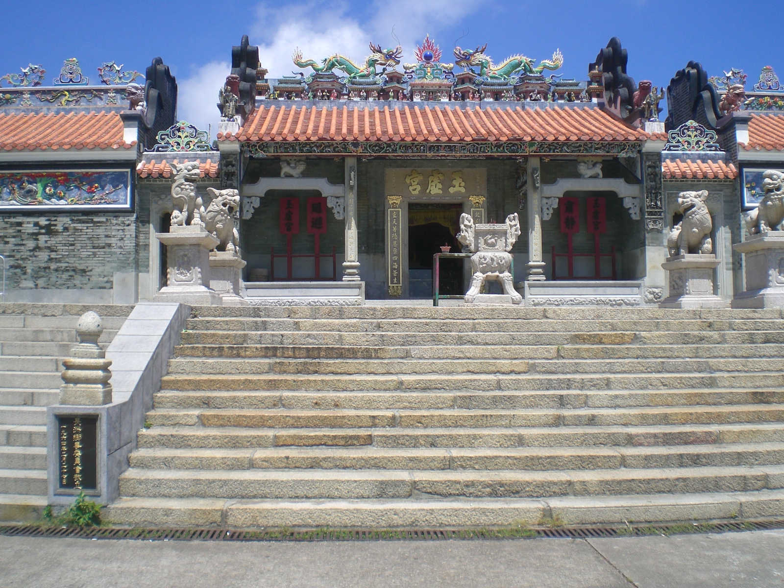 長洲玉虛宮，又名zh:長洲北帝廟，正門前的zh:球場及其它設施